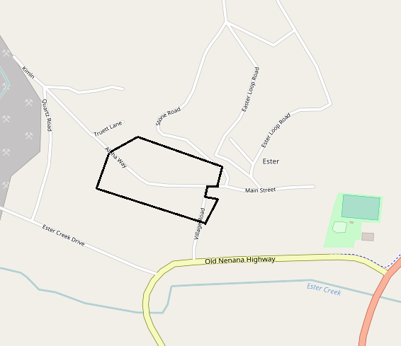 Map showing the boundaries of the Ester Camp Historic District in Alaska, United States. The historic district is listed on the National Register of Historic Places. Boundaries are derived from the map attached to the district's National Register nomination form.